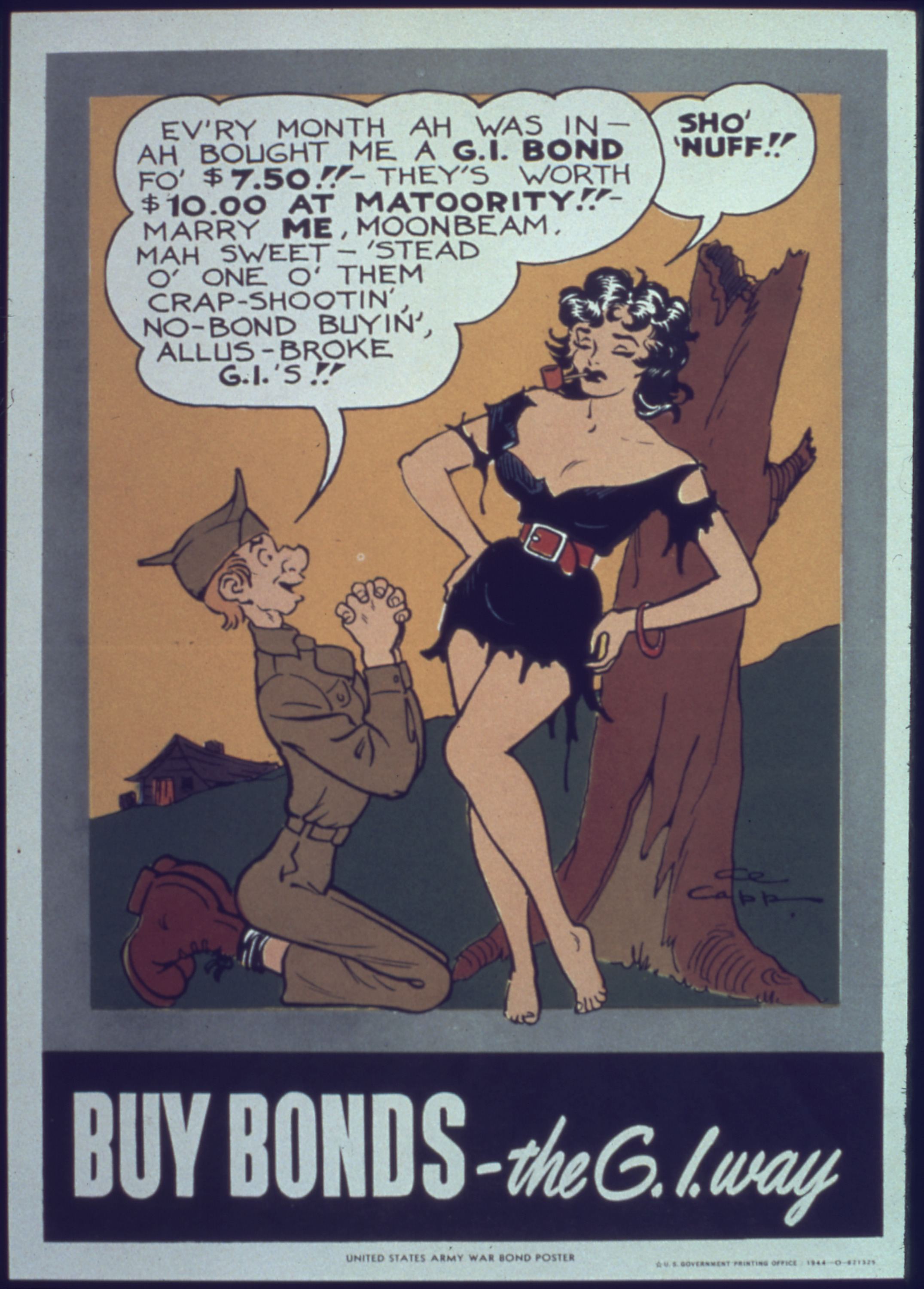 General notes: Drawn and signed by Al Capp; this visually references his Li'l Abner comic strip